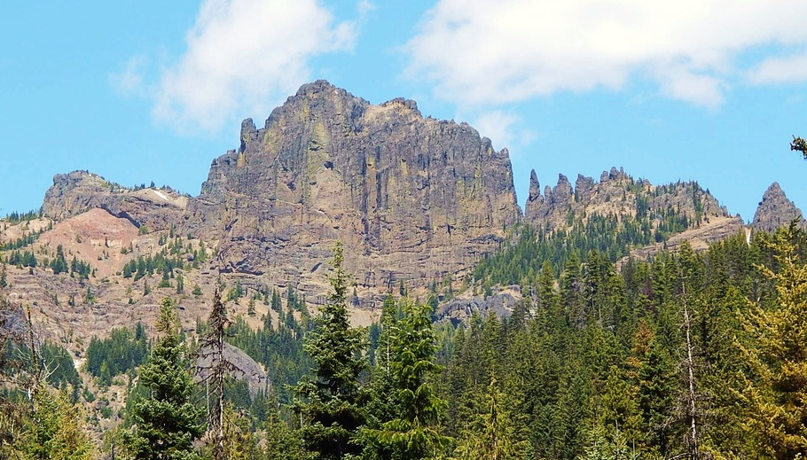 Middle Fife Peak 6793' seen from the Highway 410 viewpoint.